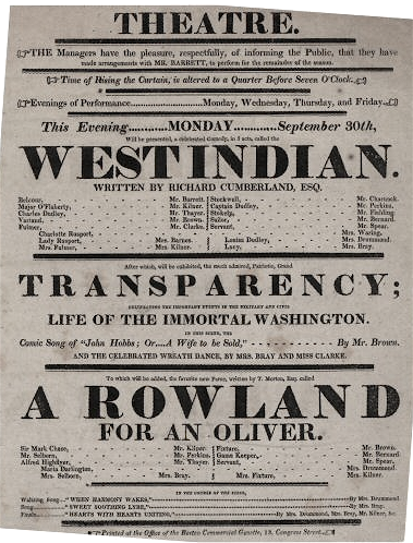 Theatre. The managers have the pleasure, respectfully, of informing the public, that they have made arrangements with Mr. Barrett, to perform for the remainder of the season. ... This evening--Monday--September 30th, will be presented, a celebrated comedy, in 5 acts, called the West Indian. Written by Richard Cumberland, Esq. ... After which will be exhibited, the much admired, patriotic, grand transparency; delineating the important events in the military and civil life of the immortal Washington. ... To which will be added, the favorite new farce, written by T. Morton, Esq. called A Rowland [sic] for an Oliver. ... Printed in Boston.